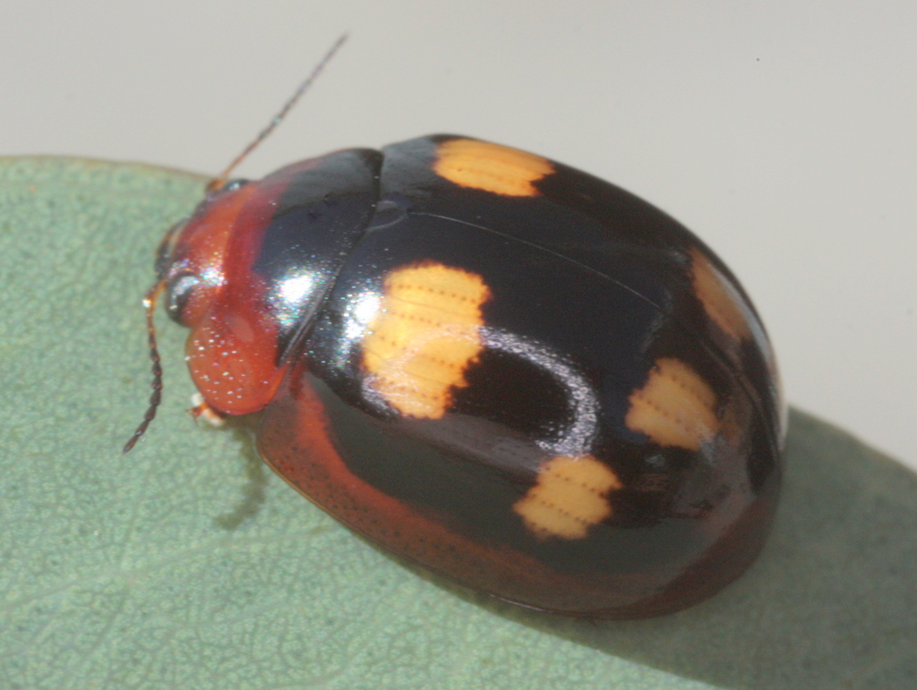 Paropsisterna beata rubrosignata